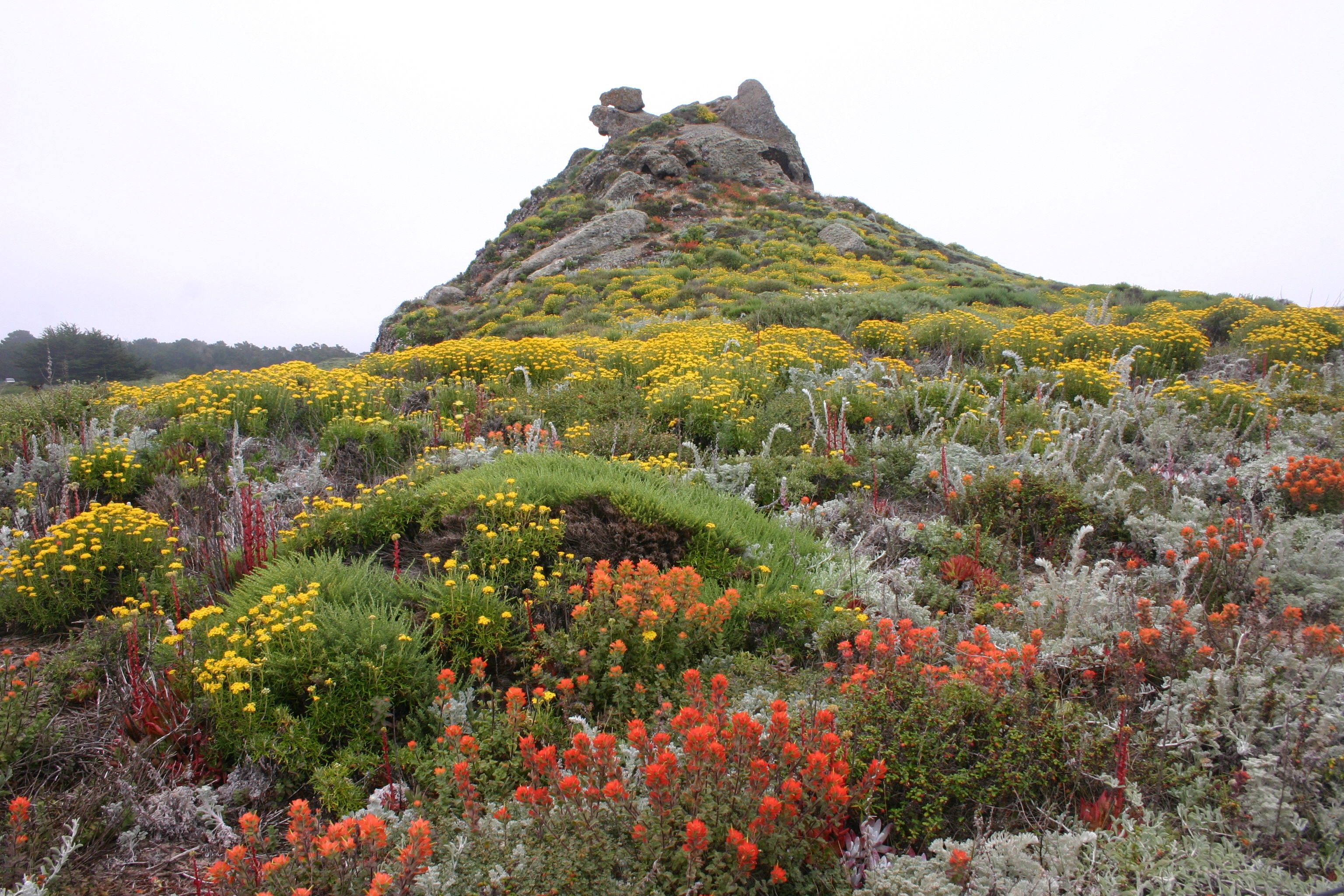 Point Lobos flower tower, at Point Lobos State Reserve in 2006, Northern California. California coastal sage and chaparral habitat flora.